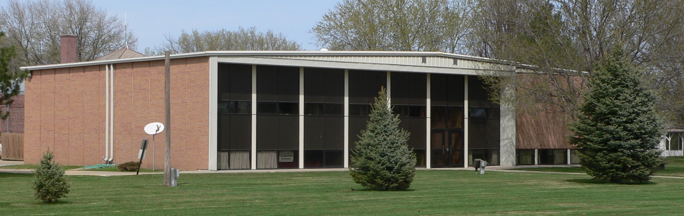 Brown County courthouse in Ainsworth, Nebraska; seen from the southwest. The building was constructed in 1959.